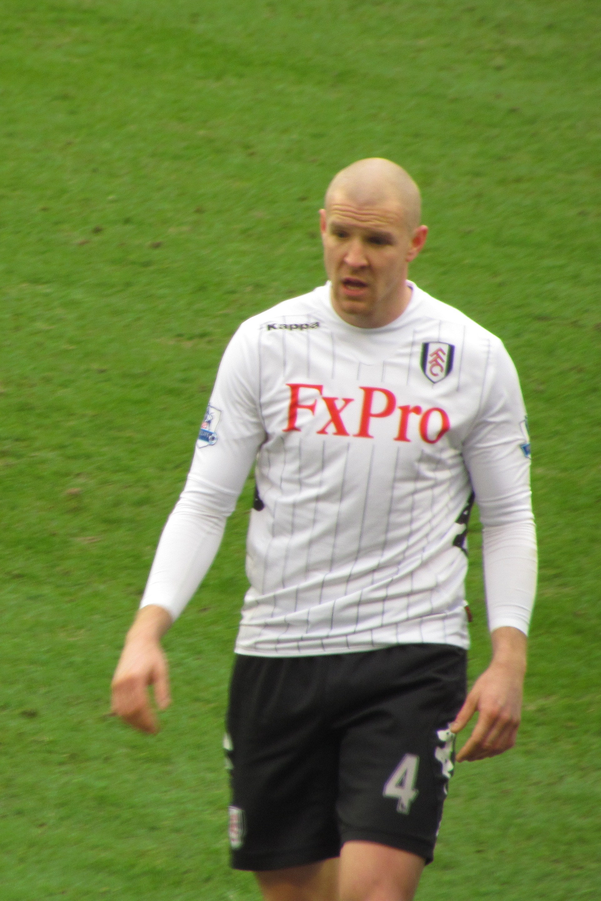 Philippe Senderos